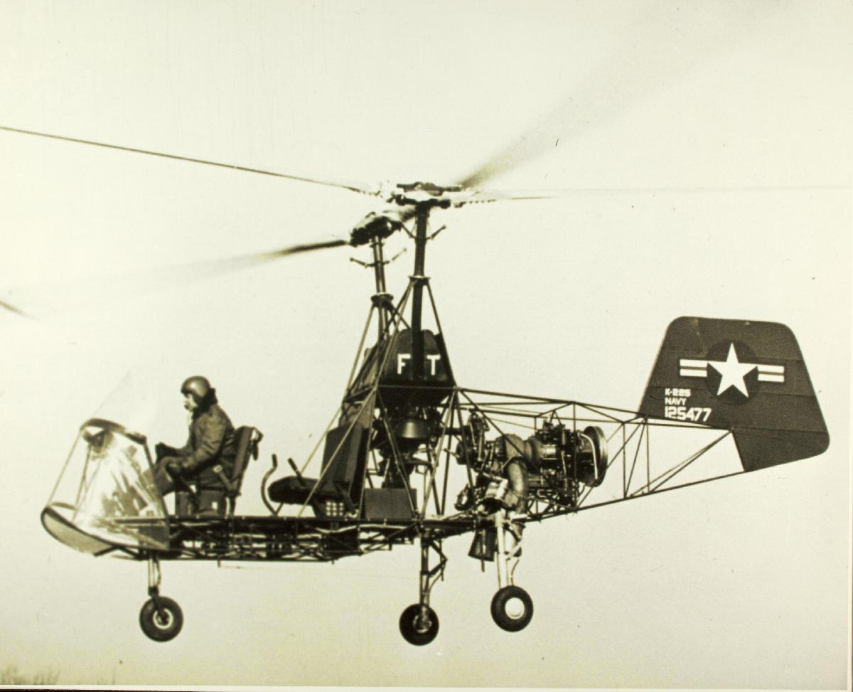 Kaman K-225, World's first turbine engine installation in helicopter, William R. Murray at controls.